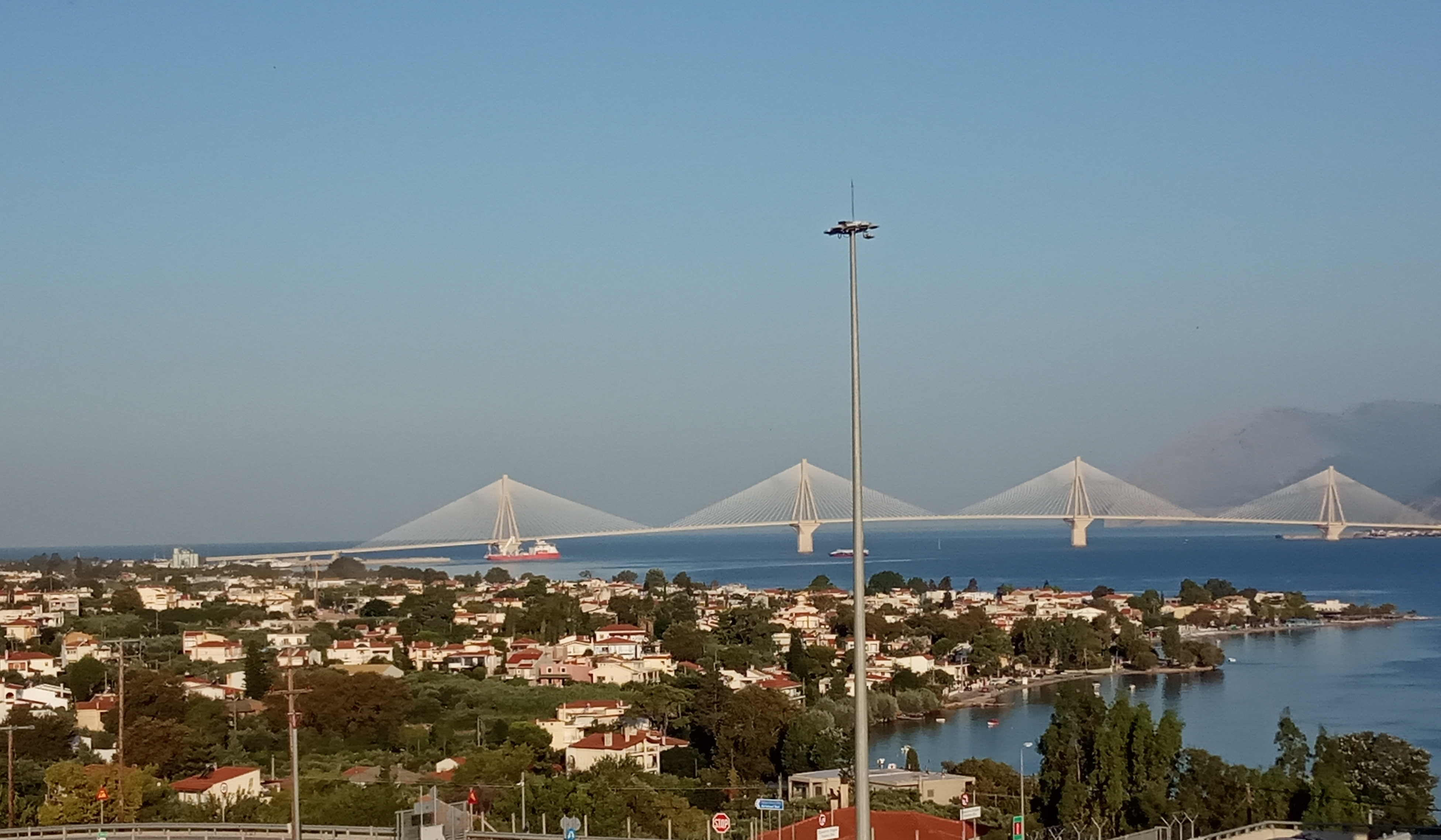 View of the village of Agios Vasileios. The Rio-Antirio bridge in the background.